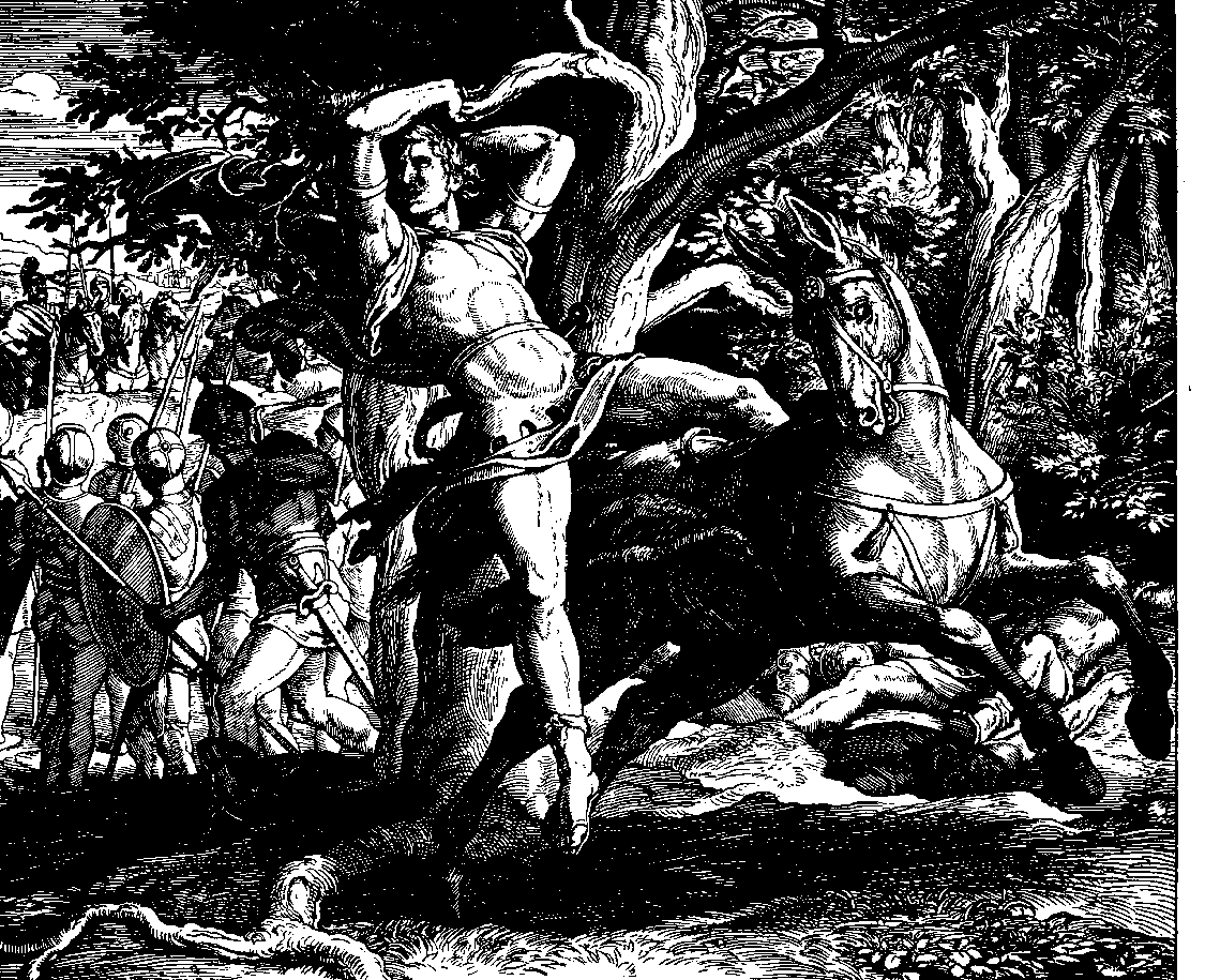 Woodcut for "Die Bibel in Bildern", 1860.